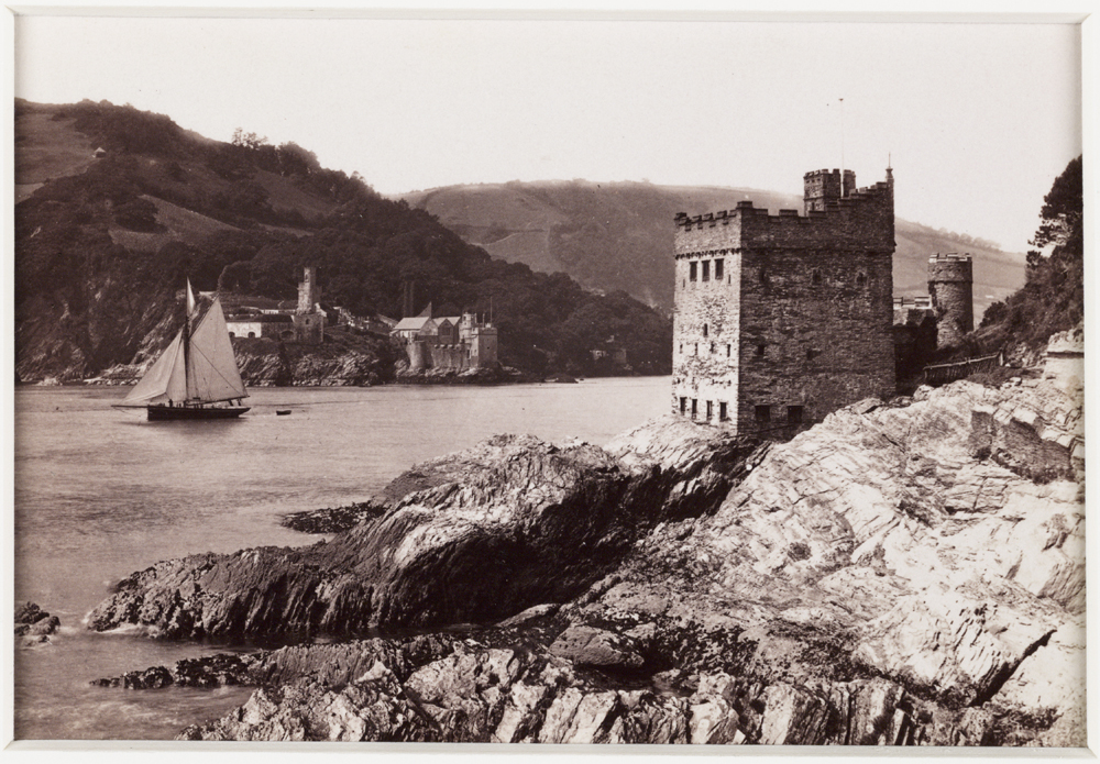 Creator: Francis Bedford (1816 - 1894) Date: c. 1880 Format: Albumen print Collection: National Media Museum Collection Inventory no: 1990-5037_B1_2832 Construction of Dartmouth Castle, on the far bank of the estuary, was begun in the late 15th century by local merchants wanting to protect their cargo. In the foreground is Kingswear Castle. These castles acted as a double defence system when the area was under threat since a chain was extended across the river between the two to form a barrier.